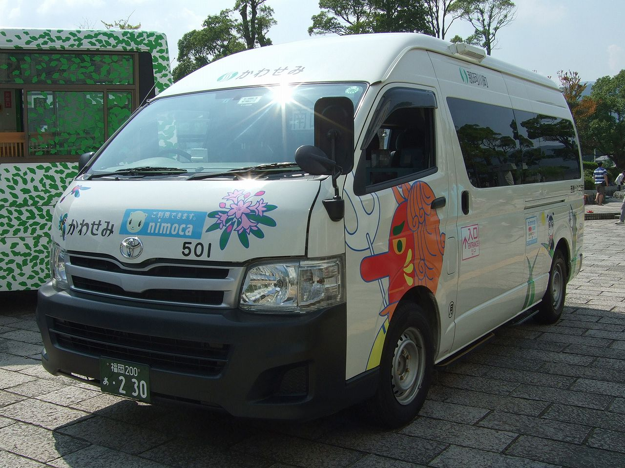 Nakagawa Town community bus “Kawasemi”